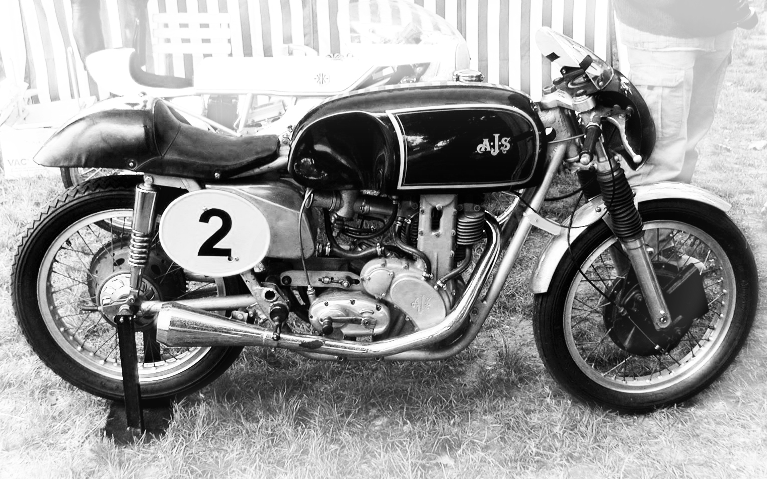 AJS in black and white